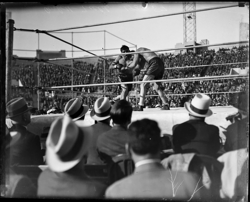 Young Corbett III, facing camera, battles Jackie Fields at at San Francisco's Seals Stadium on Feb. 22,1933, when he won the World Welterweight title, in a 10-round decision.